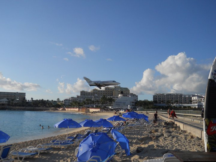 Small private jet approaches TNCM, shot from Sunset Bar and Grill